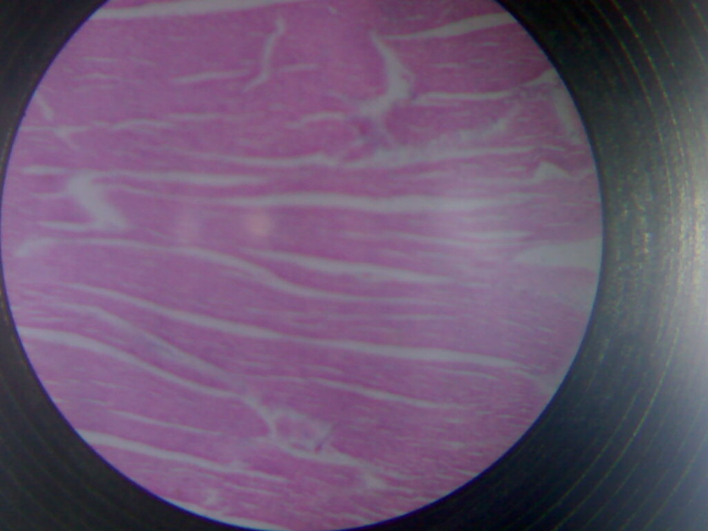 Histology of cardiac muscle in low power microscopy